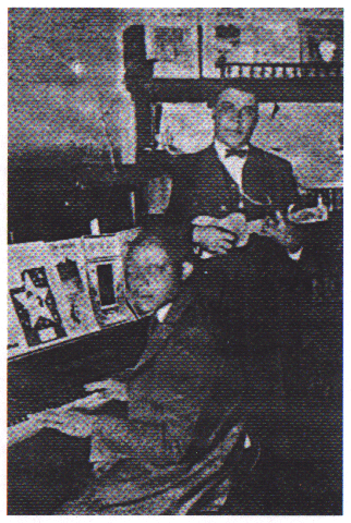 Hersal und George tHOMAS